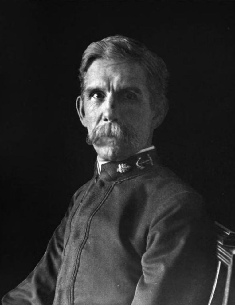 1902 portrait photograph of Richard Wainwright. Caption: "Commander Richard Wainwright - Superintendent of the United States Naval Academy at Annapolis, who was in command, during the Spanish War, of the famous Gloucester."